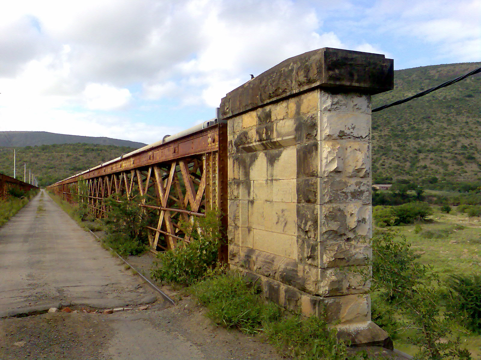 Author: Gregorydavid 14:38, 23 December 2006 (UTC)